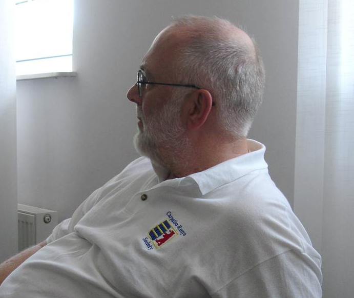 prof. Paul J. Best, Sanok, Poland